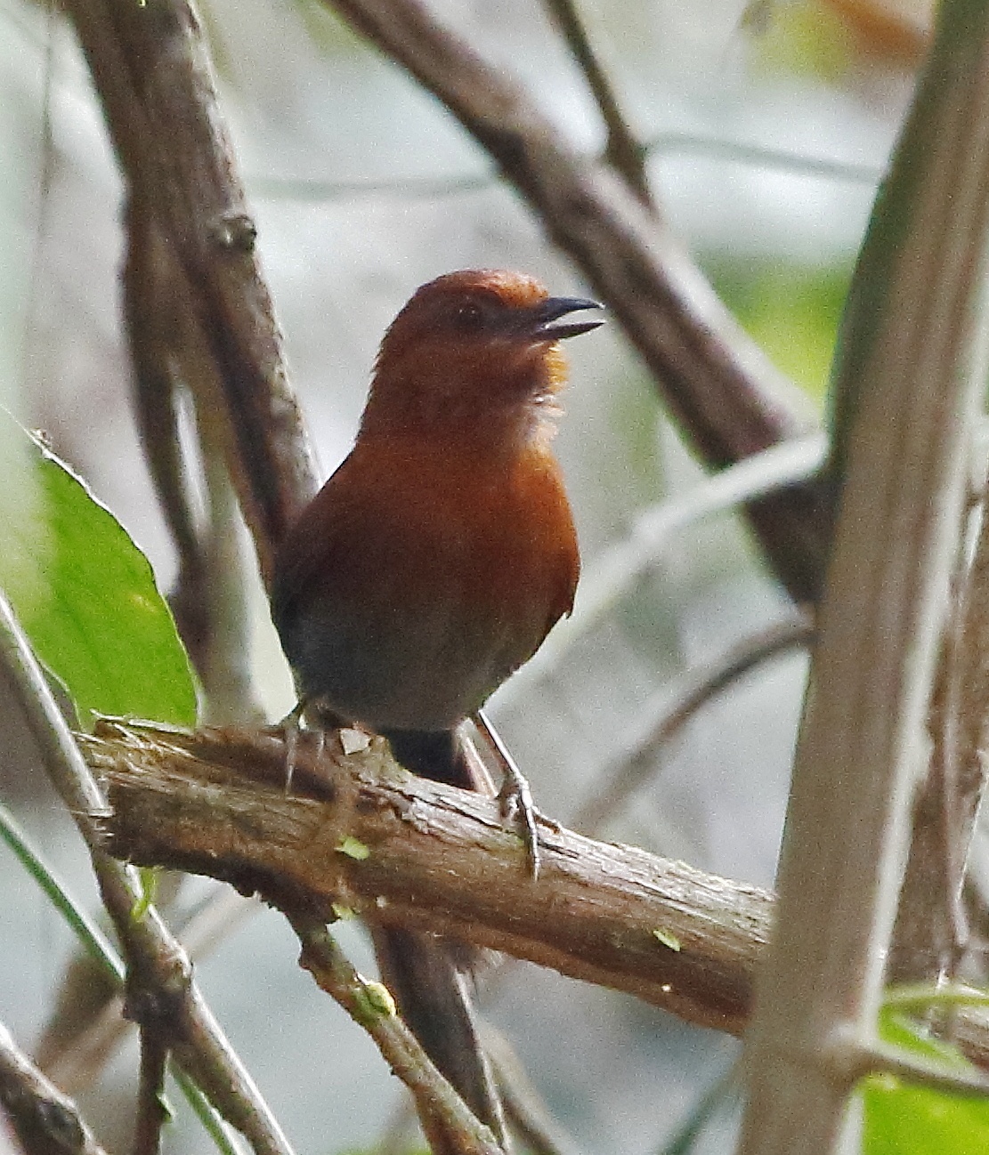 Chestnut-throated spinetail at Carajás National Forest - Pará - Brazil